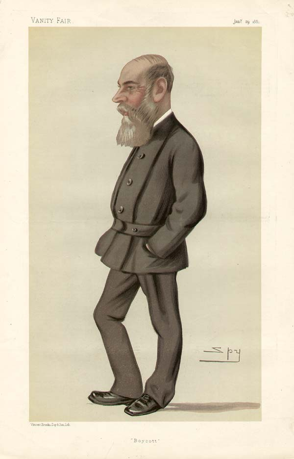 Caricature of Charles Cunningham Boycott (1832-1897). Caption read "Boycott".